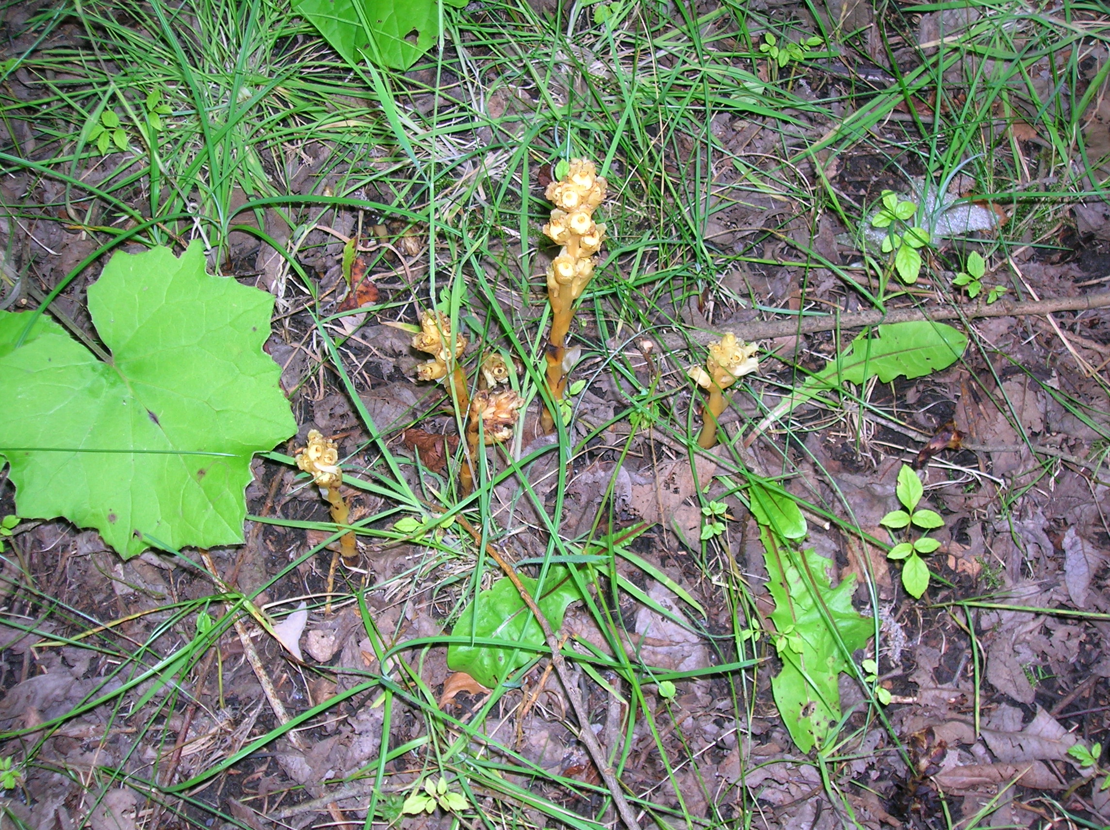 Orobanche minor with the host, Coltsfoot (Tussilago farfara) at Spier's Old School Grounds, North Ayrshire, Scotland.